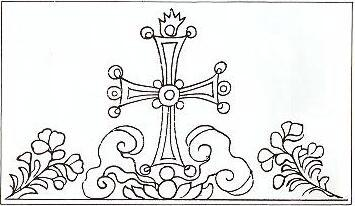 The Cross sculptured on the famous Nestorian Monument at Hsi-an-fu. It stands in the middle of a dense cloud which is symbolic of Muhammadanism, and upon a lotus, which symbolises Buddhism; its position indicates the triumph of the Luminous Religion of Christ over the religions of Muhammad and the Buddha. The sprays of flowers, one on each side, are said to indicate rebirth and joy.